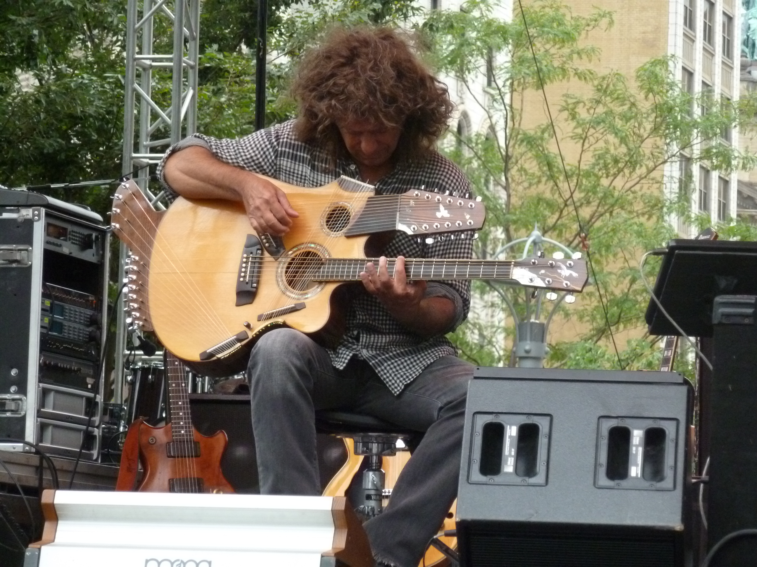 Pat Metheny with the Linda Manzer Pikasso guitar. It has four necks and 42 strings.